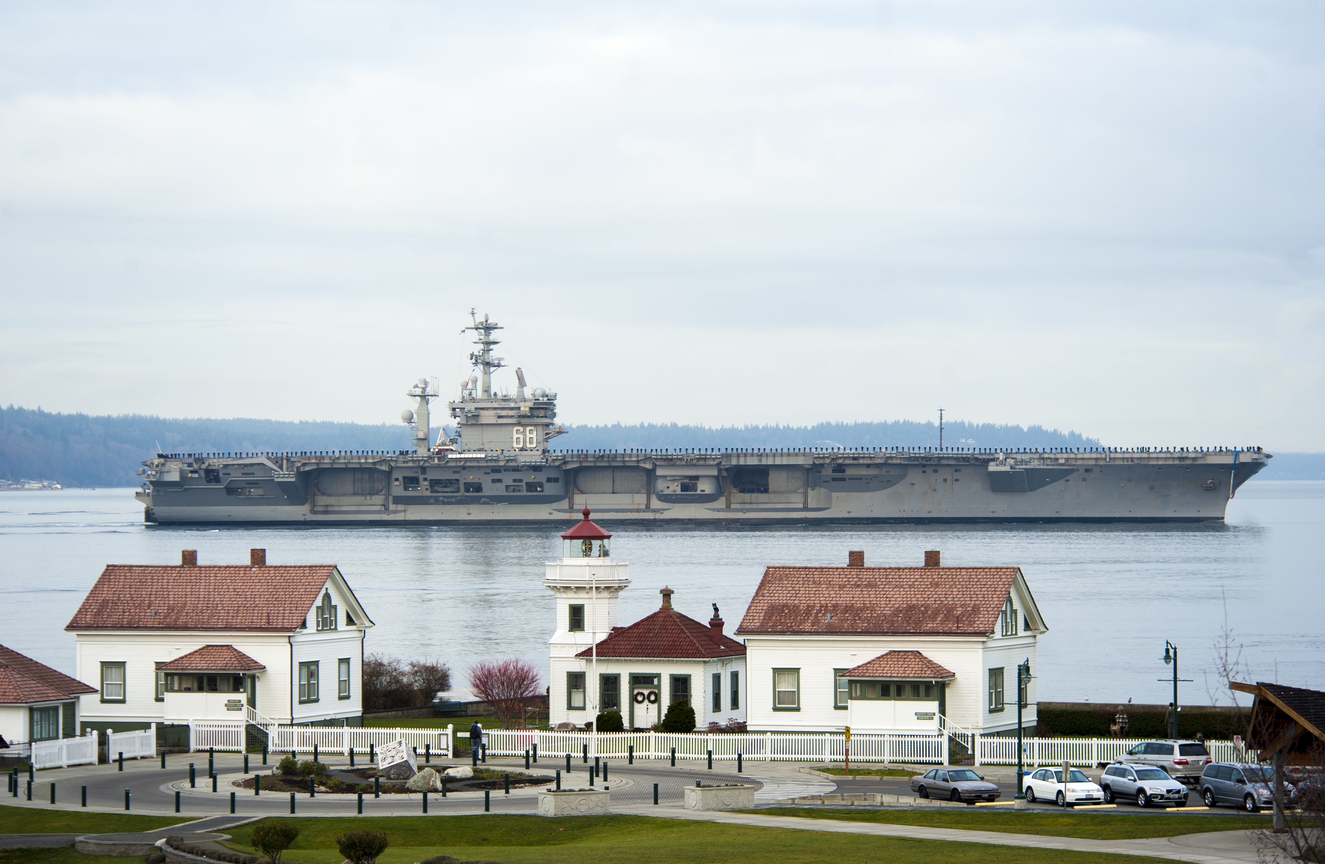 131216-N-AE328-042 EVERETT, Wash. (Dec. 16, 2013) The aircraft carrier USS Nimitz (CVN 68) passes by Mukilteo Lighthouse Park on its way to homeport at Naval Station Everett. Nimitz concluded an extended deployment to the western Pacific, U.S. Central Command and U.S. European Command areas of responsibility supporting Operation Enduring Freedom and maritime security operations. (U.S. Navy photo by Mass Communication Specialist 1st Class Nathan Lockwood/Released) 131216-N-AE328-042 Join the conversation navylive.dodlive.mil